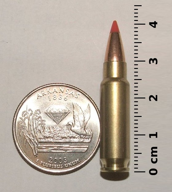 Size comparison of SS196SR with a 24 mm coin and a centimeter ruler.